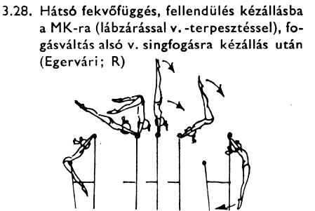 Original element of gymnast Marta Egervari